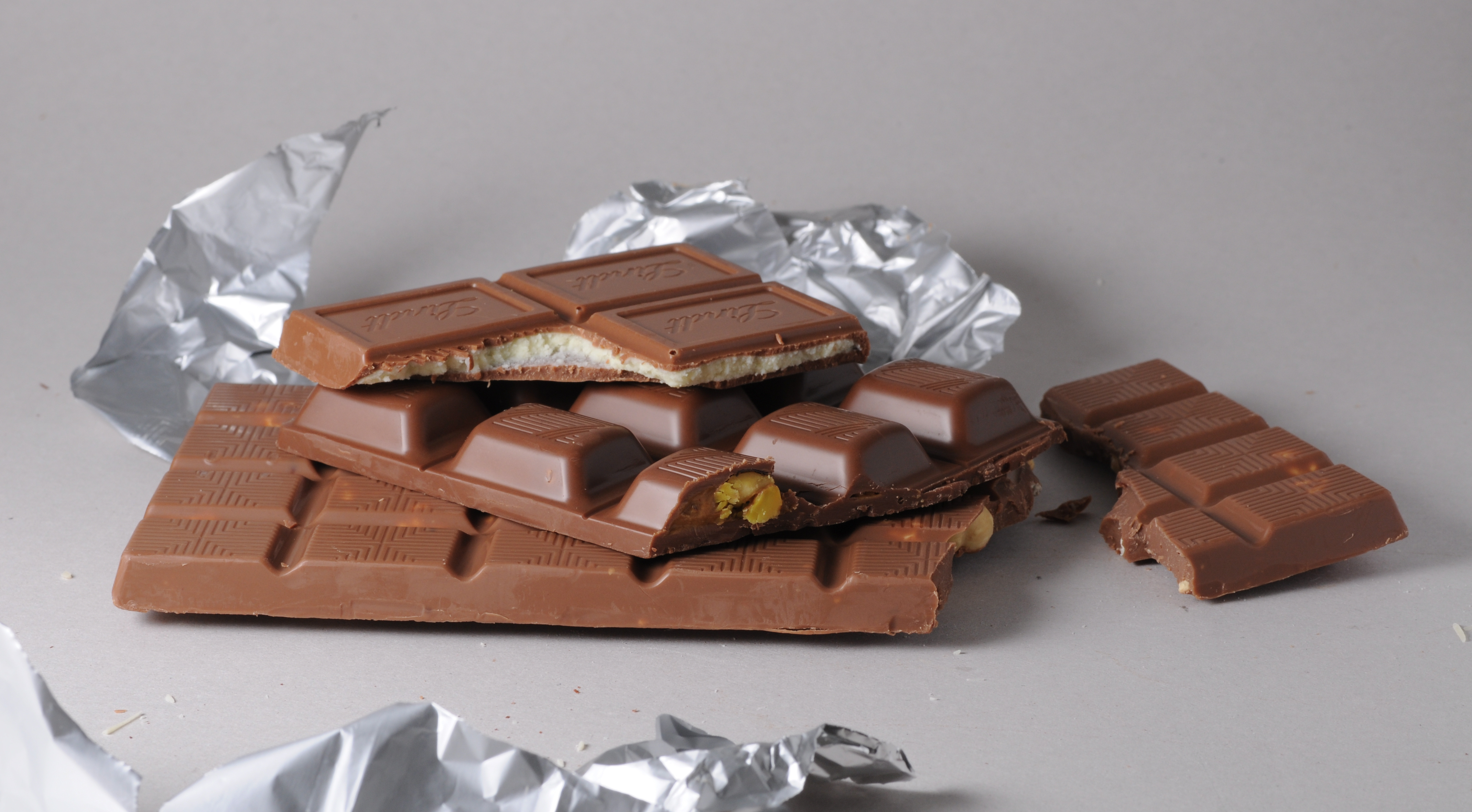 Brown Swiss chocolate. The bar at the bottom is hazelnut chocolate, the bar in the middle contains pistachio nuts, the top bar is chocolate with a milk center.